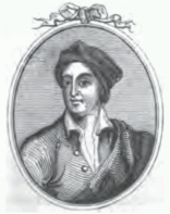 Charles Boit, Swedish enamelist